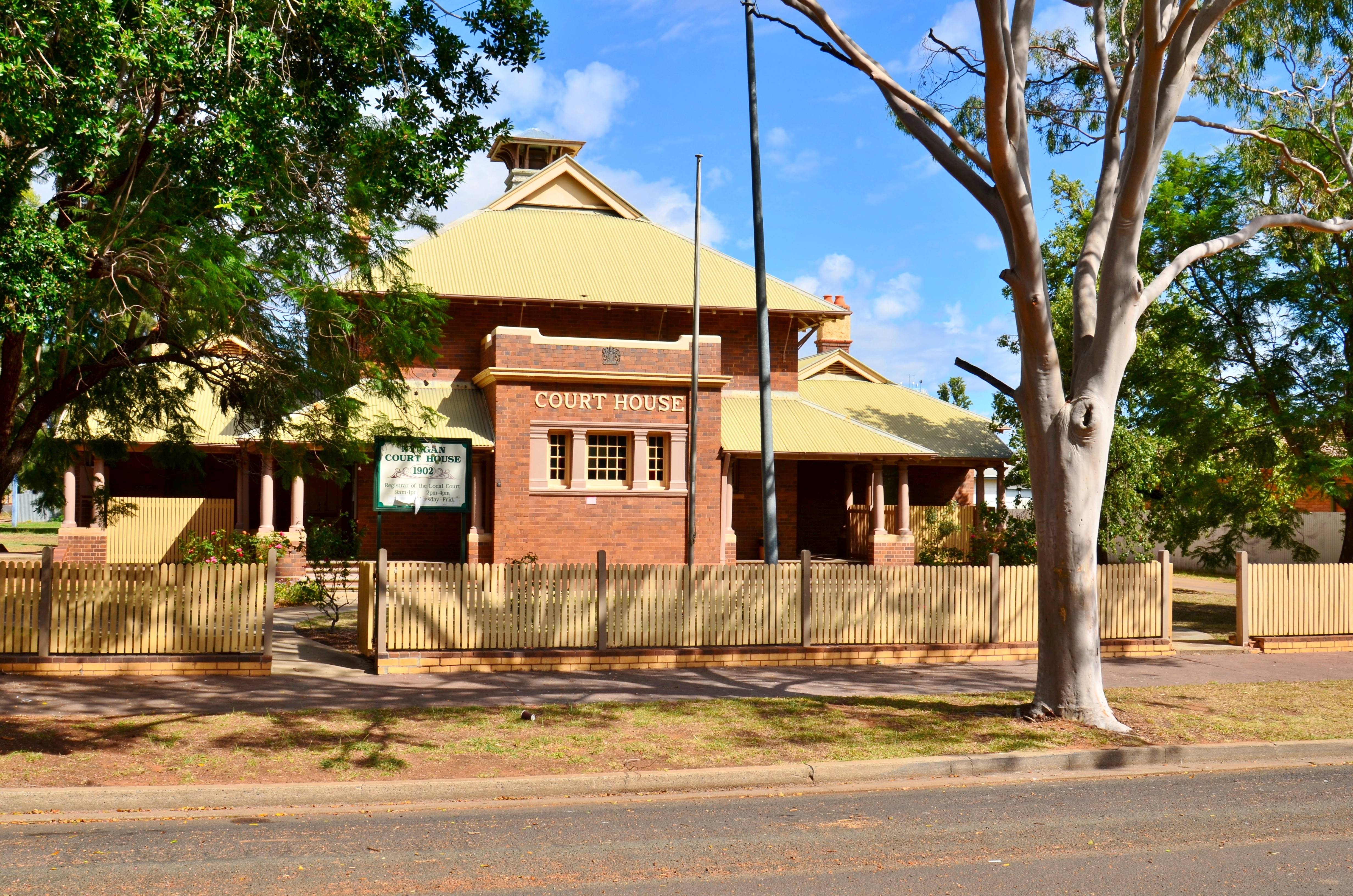 View of the Court House, Nyngan, New South Wales